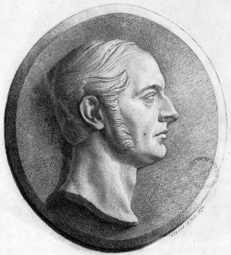 French composer Désiré-Alexandre Batton (1798-1855). Engraving by Ternu after a medallion by Francisque Duret (1804-1865).